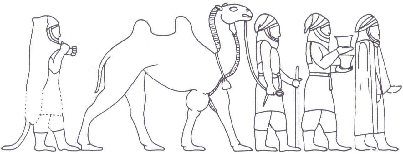 Arian delegation presenting metal vases and leopard skin, relief from Apadana Eastern Stairway, Persepolis, Iran